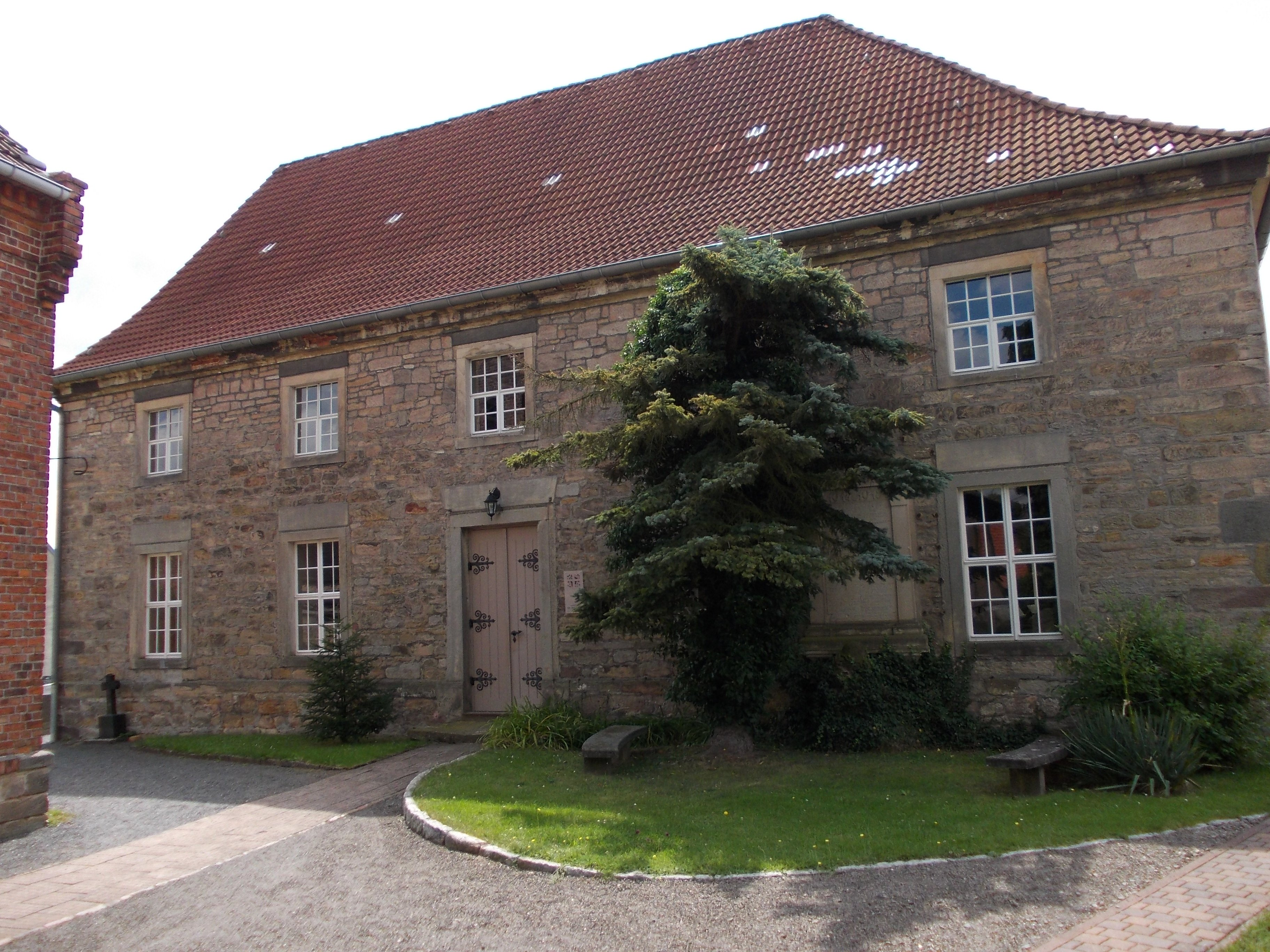 St. Mark's Church in Ziegelroda (Querfurt, district of Saalekreis, Saxony-Anhalt)